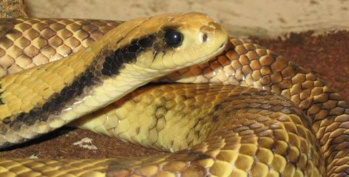 False water cobra, male